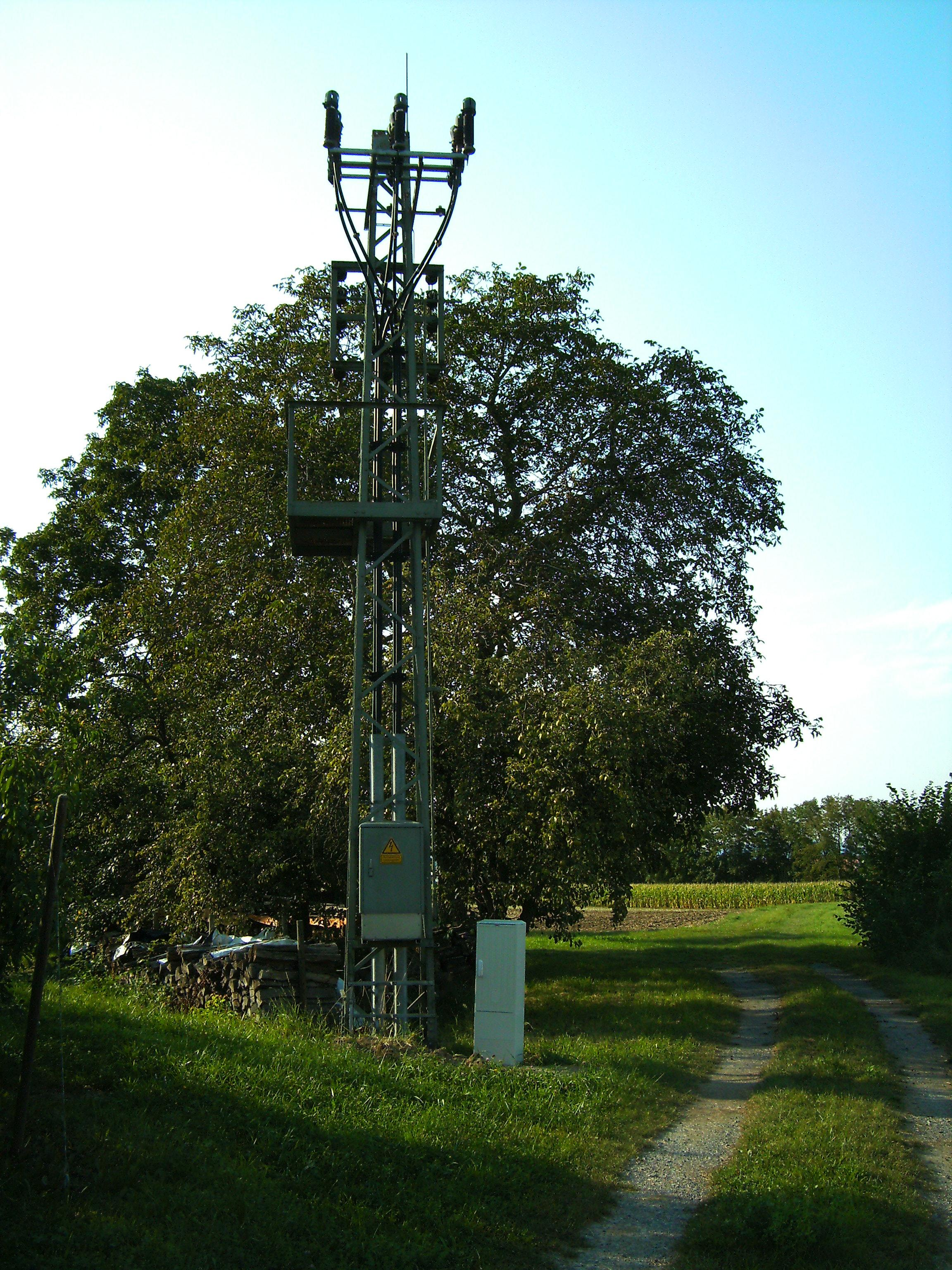 Former pylon transformer south of Markgröningen, today only used as switching pylon, coordinates: 48°53'45"N 9°5'12"E